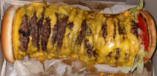 20x20 In-N-Out Burger – 20 hamburger patties and 20 slices of cheese